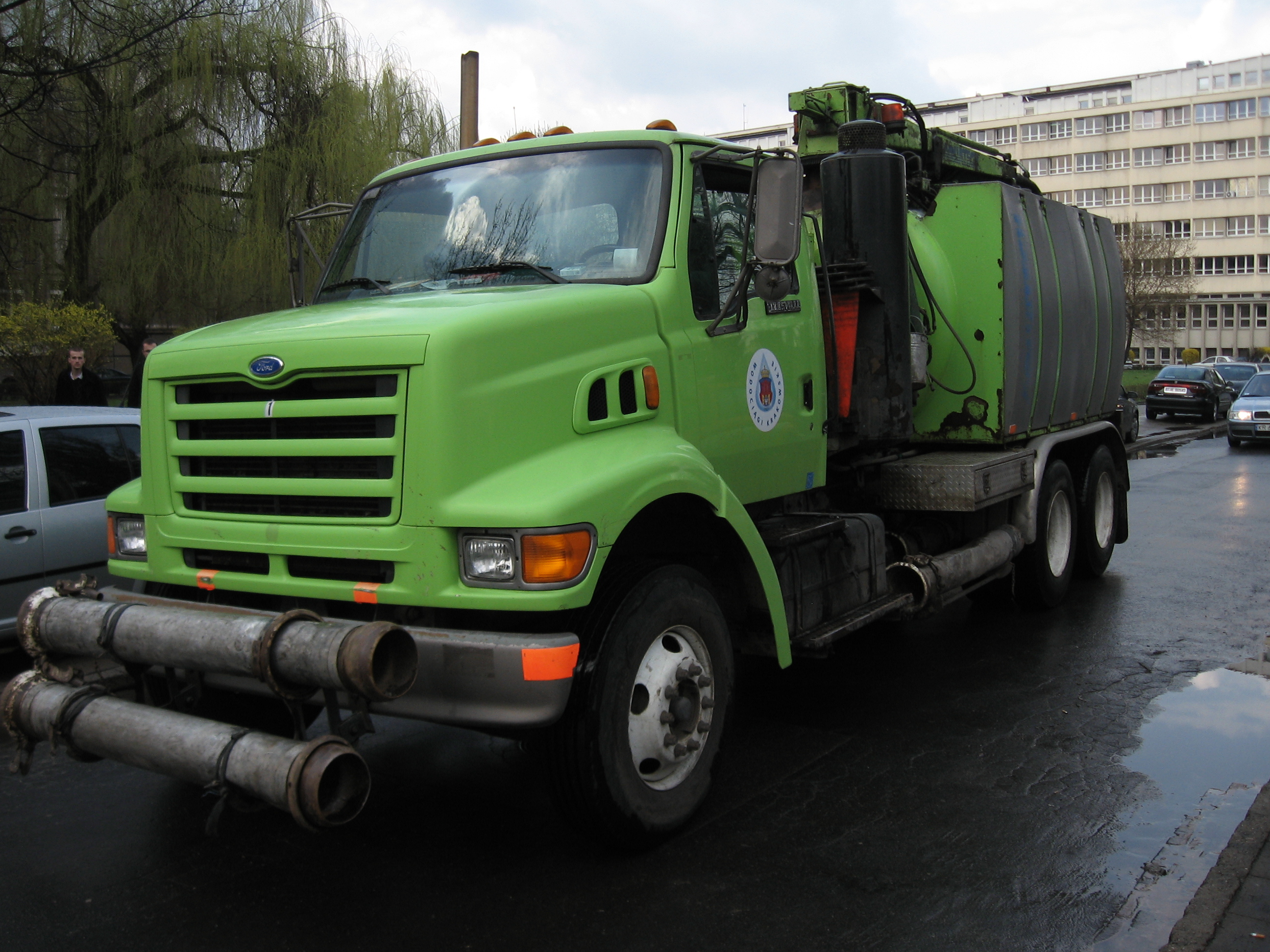 Ford sewerage service truck on Oleandry street in Krakow.